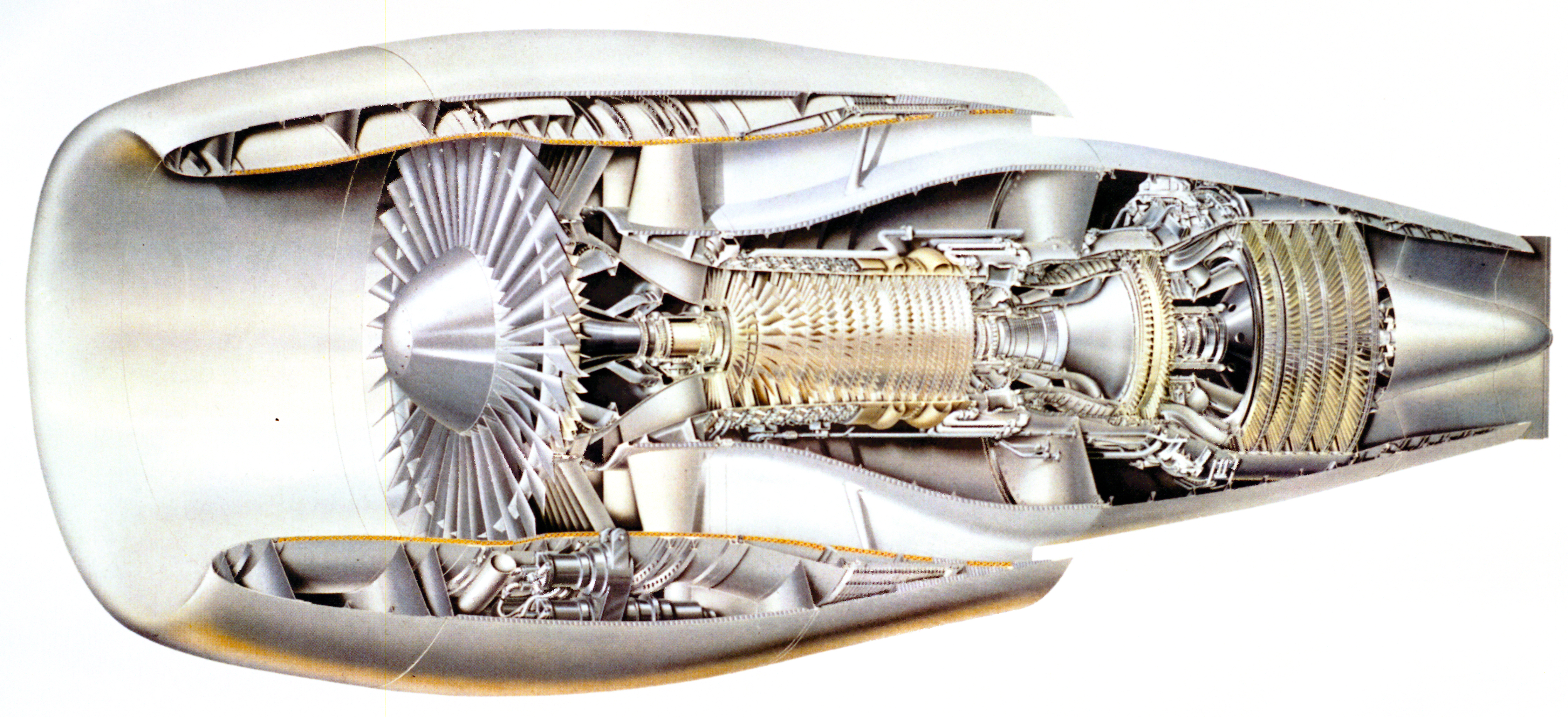 Scope and content: The original finding aid described this as: Capture Date: 5/18/1976 Photographer: DONALD HUEBLER Keywords: Larsen Scan